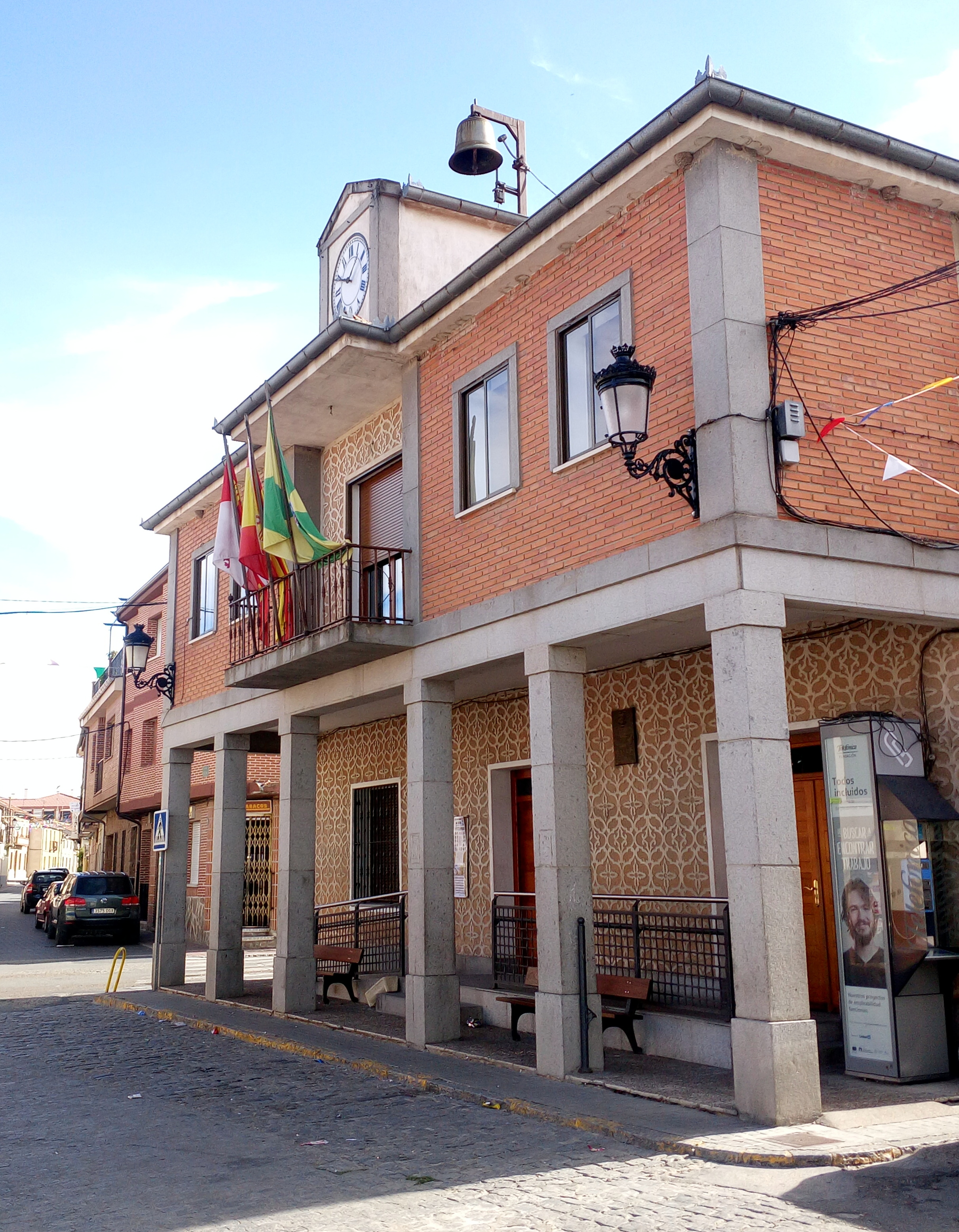 Town hall in Cantimpalos, Segovia, Spain.